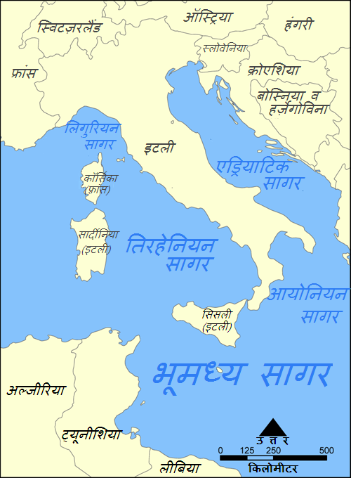 Tyrrhenian Sea map. Hindi.